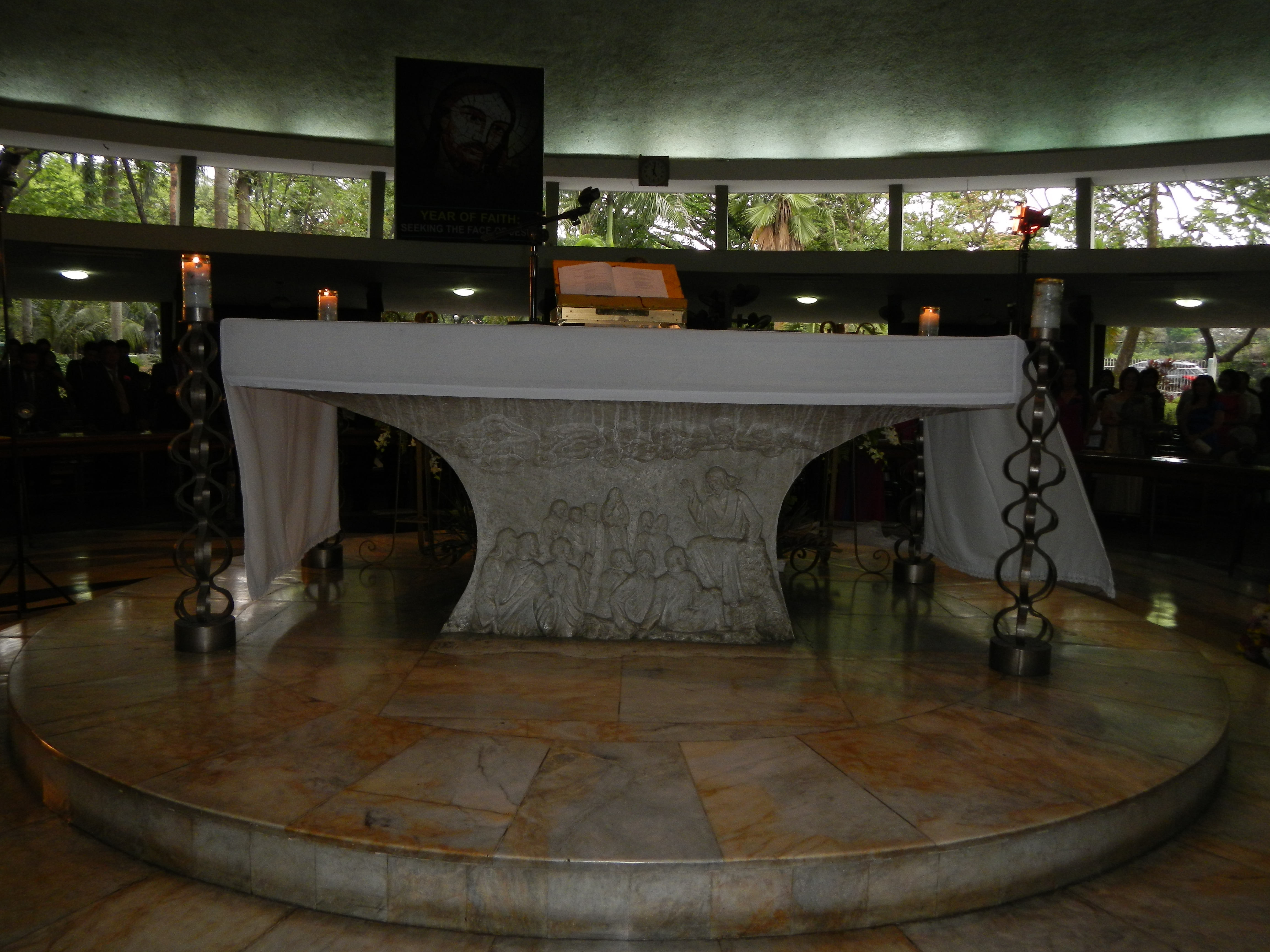 Parish of the Holy Sacrifice[1]The Parish of the Holy Sacrifice, also the Church of the Holy Sacrifice, is a landmark Catholic chapel in the University of the Philippines Diliman. It belongs to the Roman Catholic Diocese of Cubao[2] and its present parish priest is Rev. Fr. Henry E. Ferreras.[3]